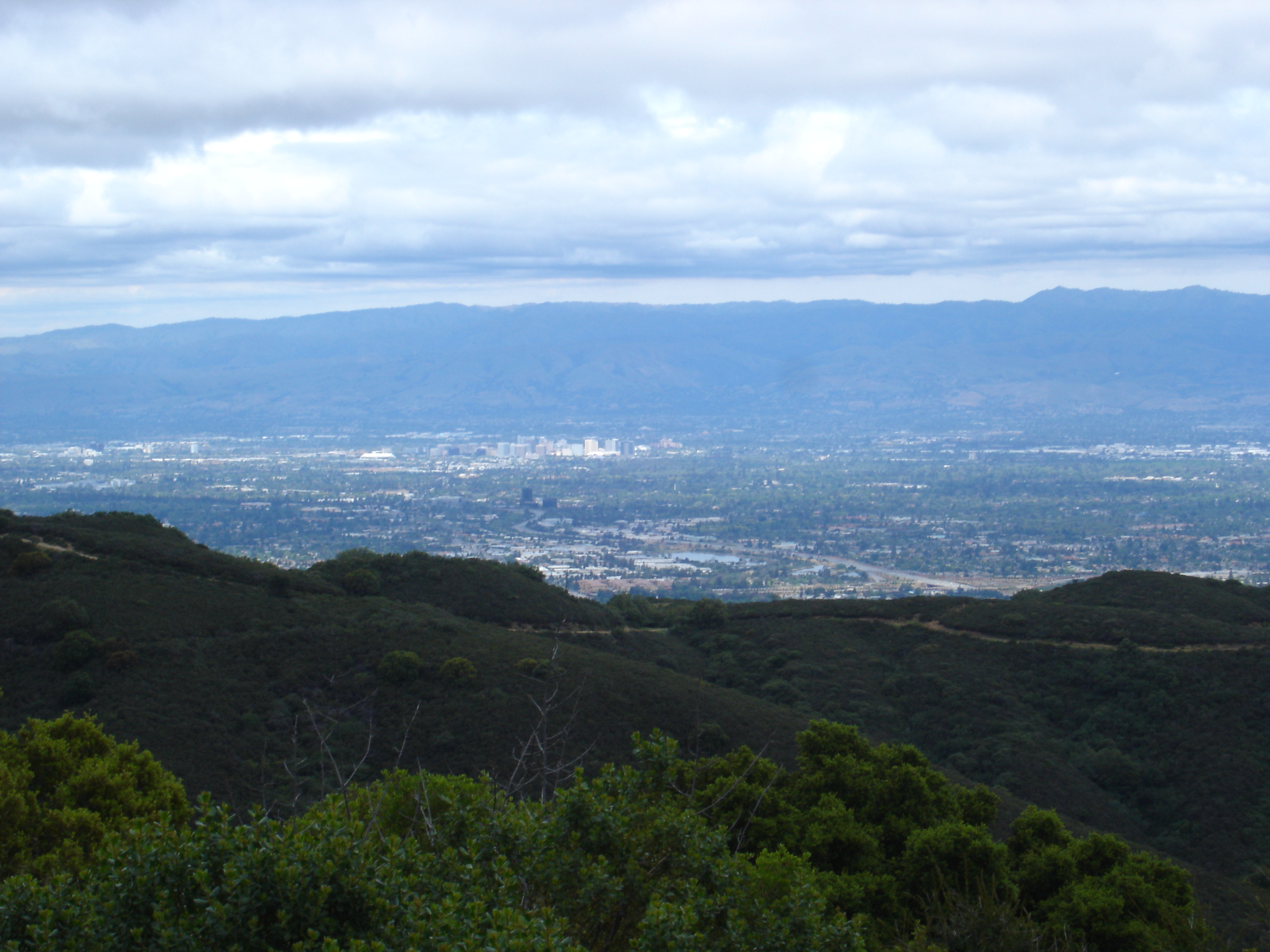 Campbell and San Jose, with the Diablo Range behind - from El Sereno Open Space Preserve in the Santa Cruz Mountains, northern California.